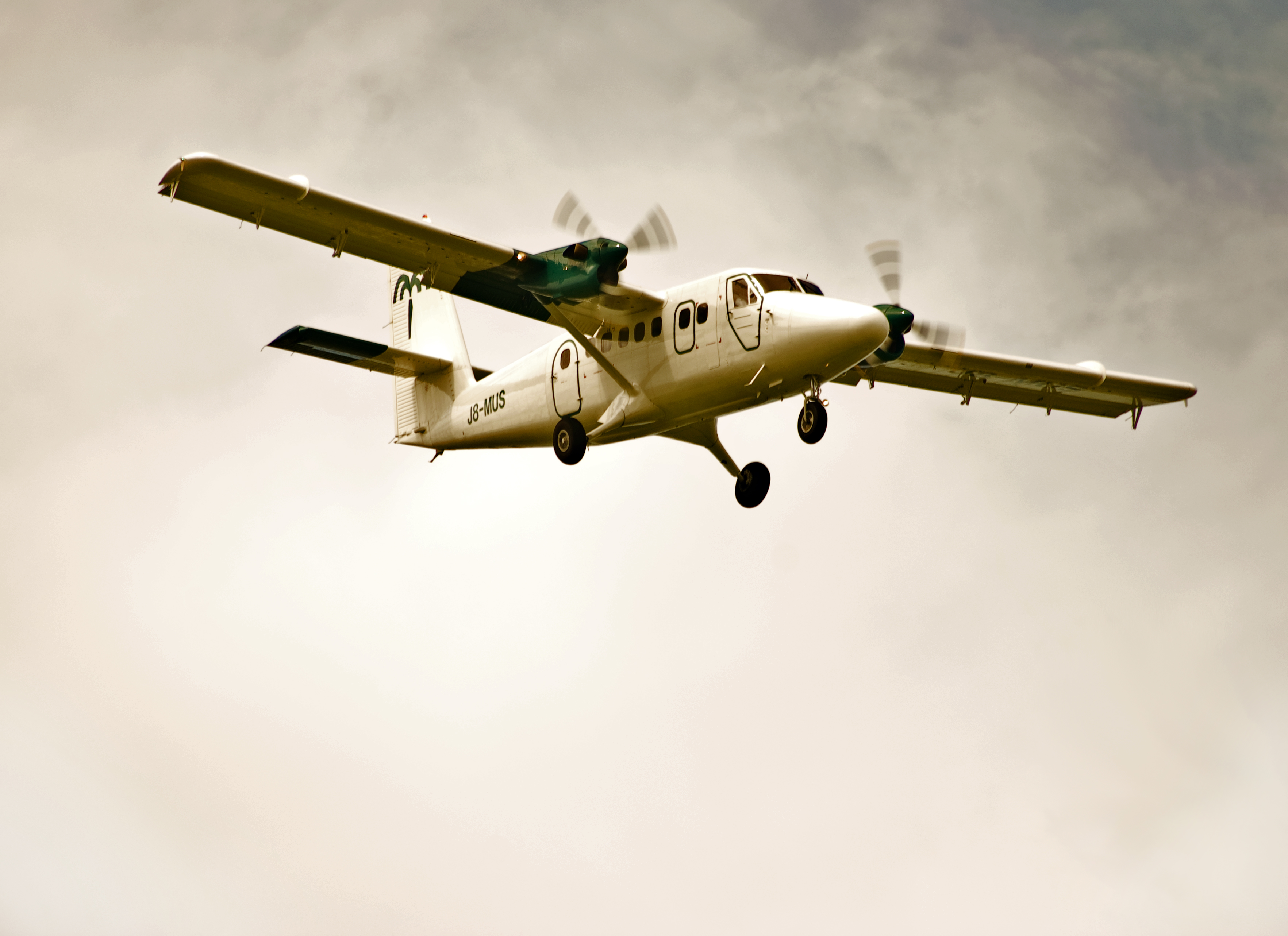 In the sky, Barbados